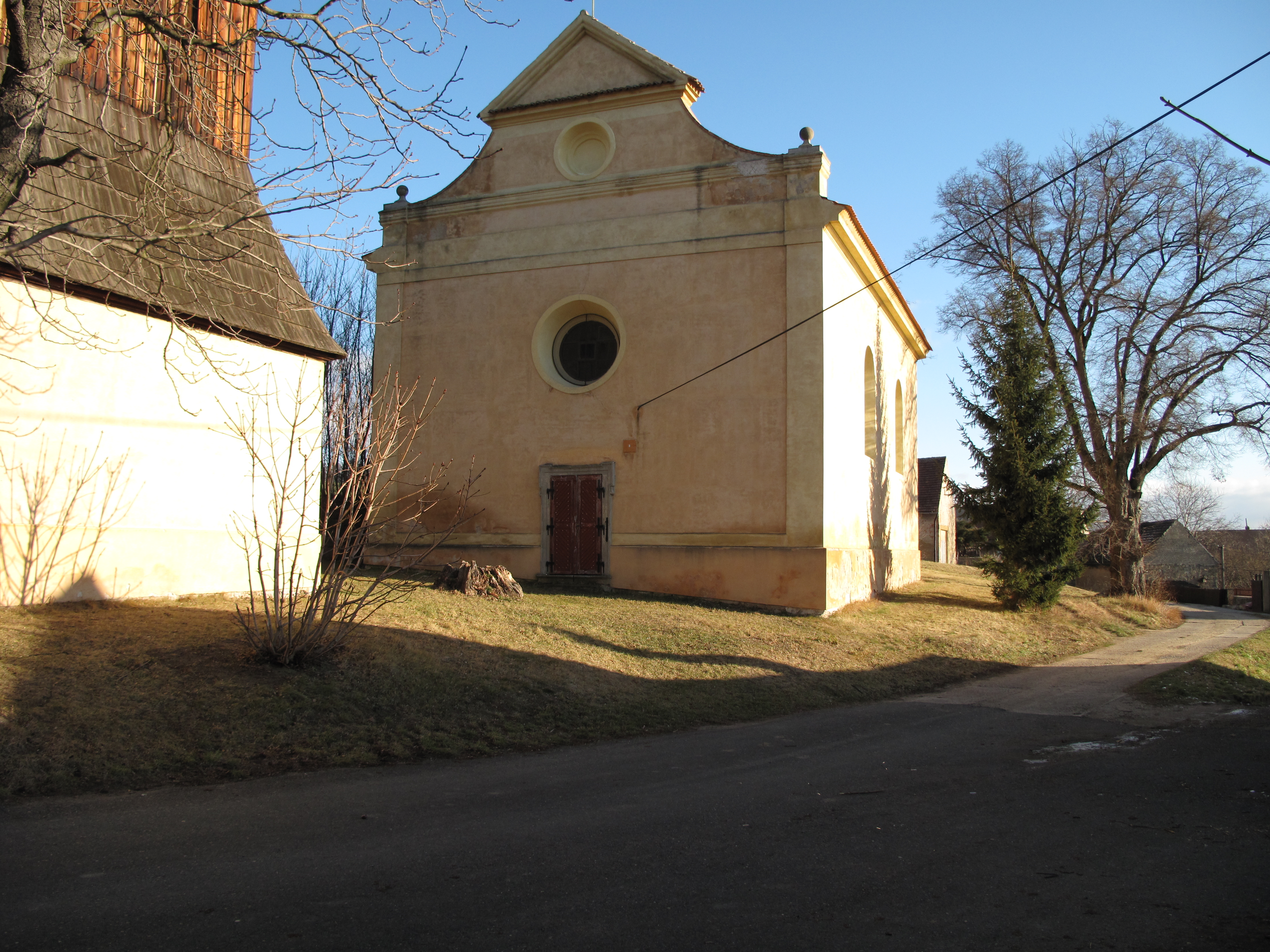 Church of Saint James the Greater in Řisuty village, Kladno District, Czech Republic.